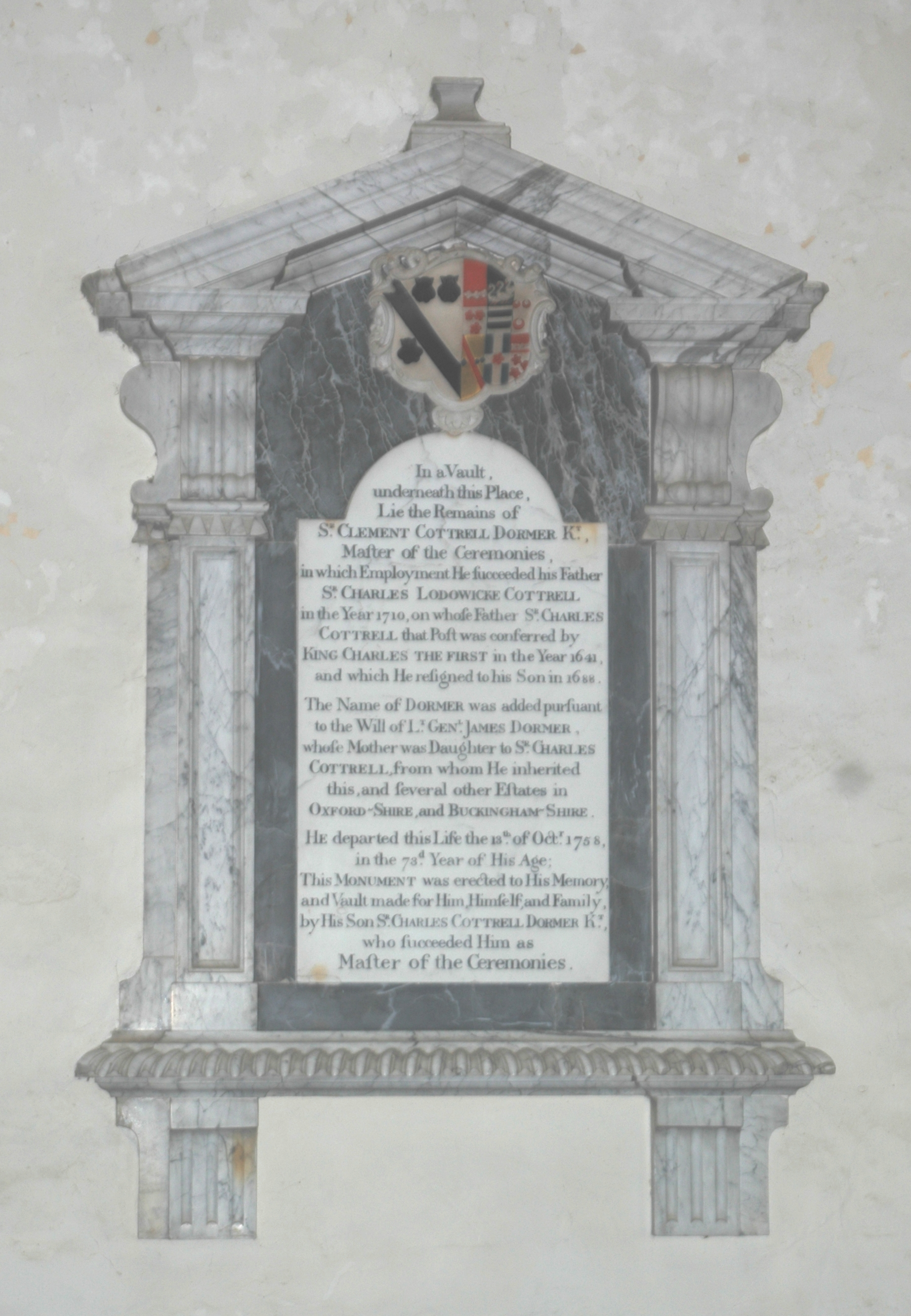 Church of England parish church of St Leonard & St James, Rousham, Oxfordshire: monument to Sir Clement Cottrell-Dormer, died 1758